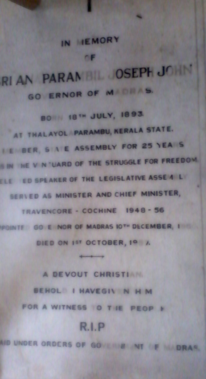 Image of the stone at the tomb of AJ John at Mylapore - Chennai